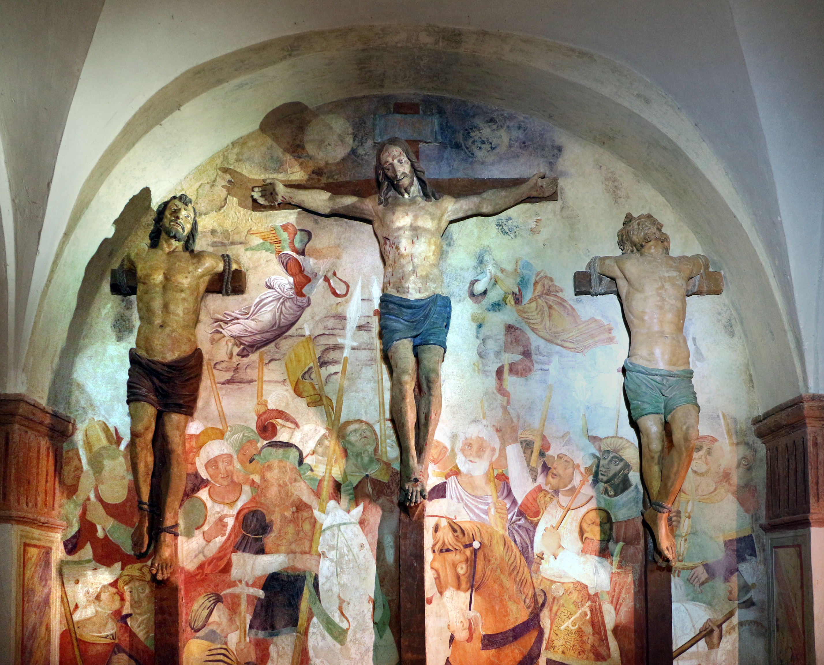 San Vivaldo Sacro Monte